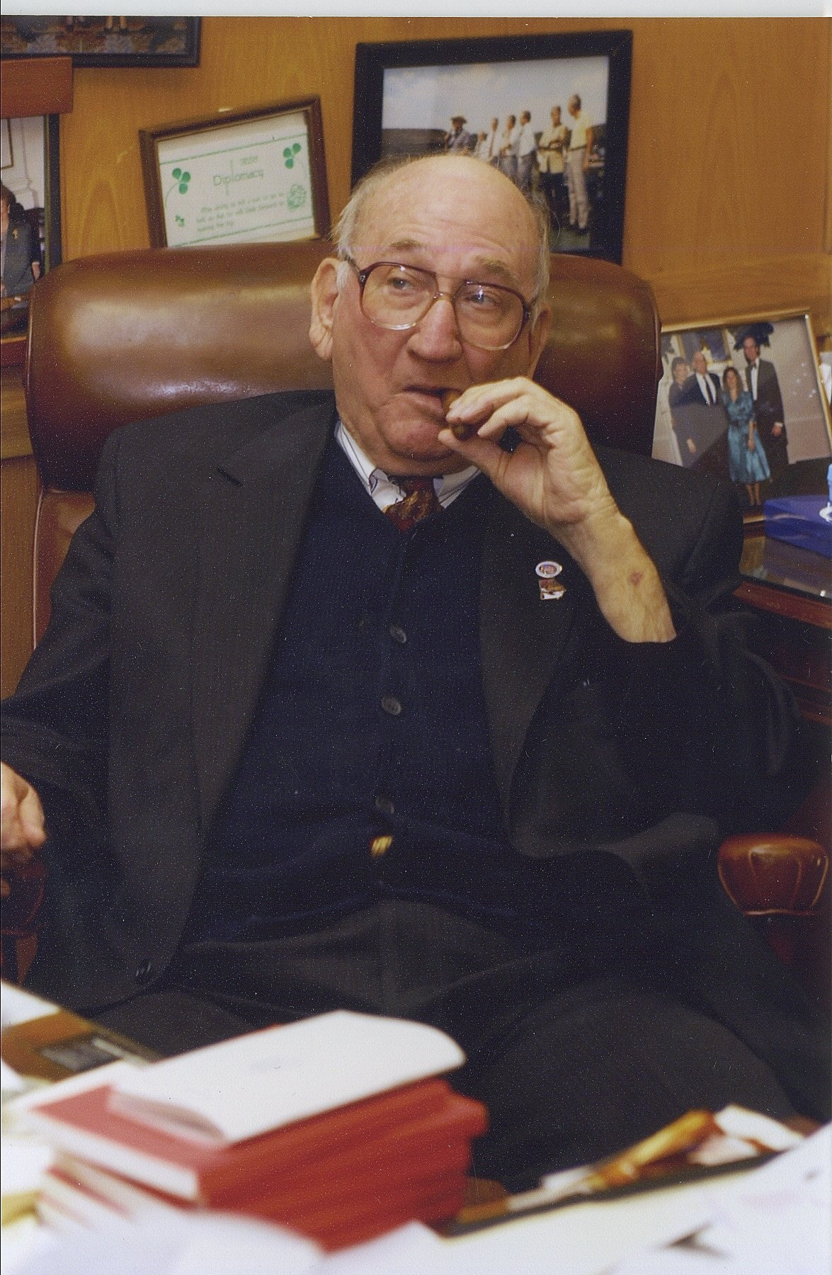 The Speaker enjoying a cigar in his famous office